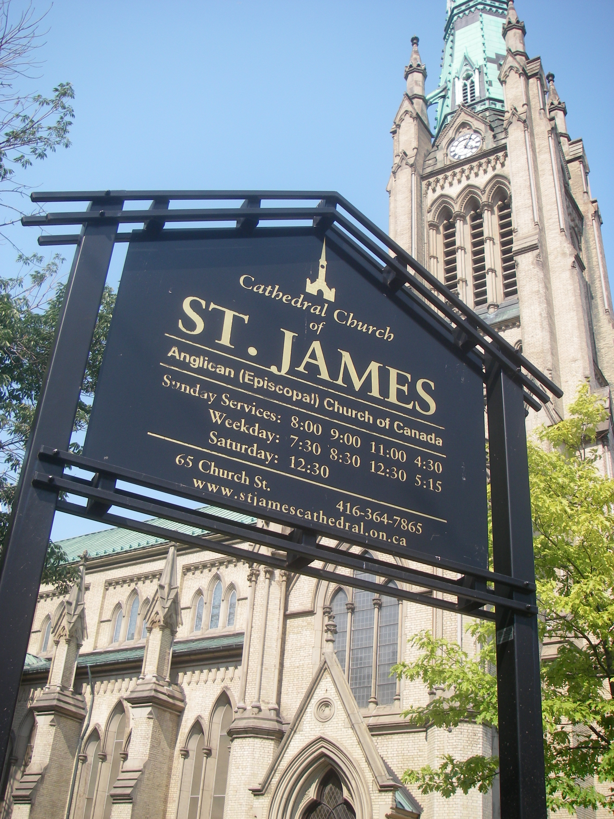 Picture I took of the sign at the main entrance on 65 church street